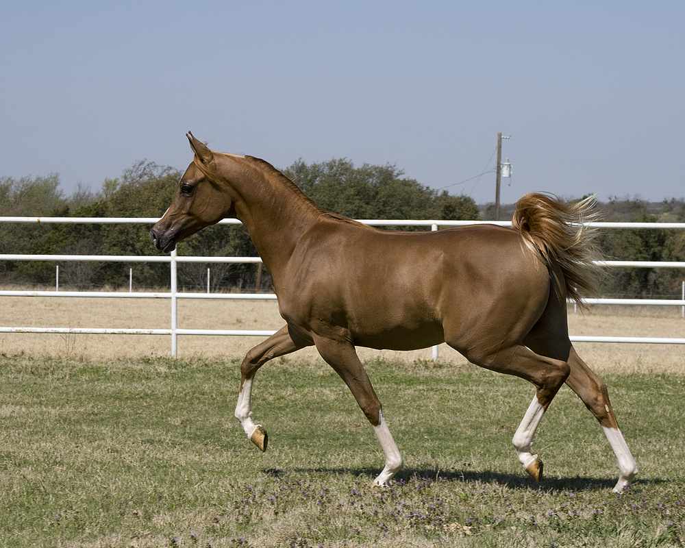 Trotting Arabian - chestnut coat.